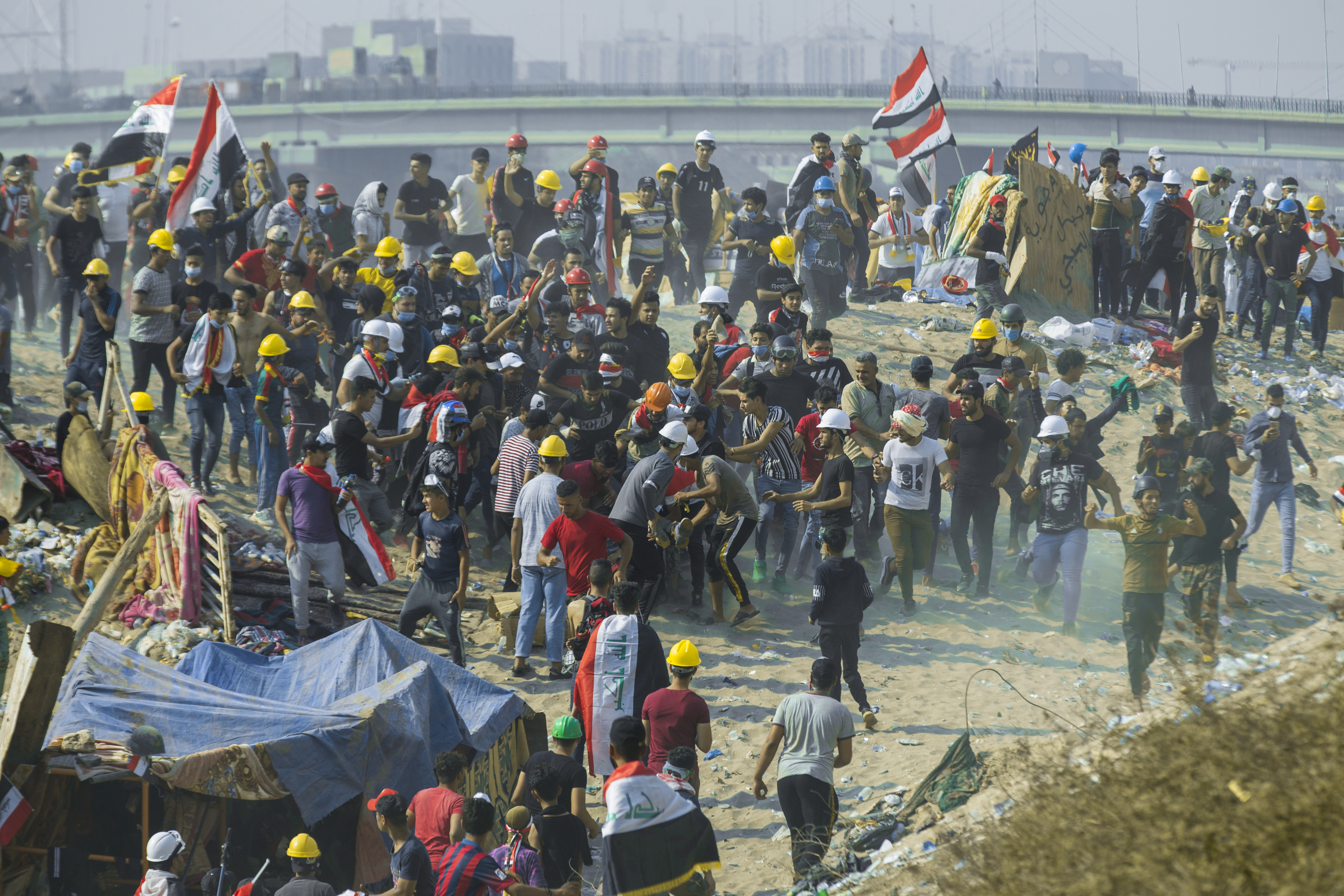 A fatal head injury targeted a 15-year-old child with a tear gas launch by Iraqi security